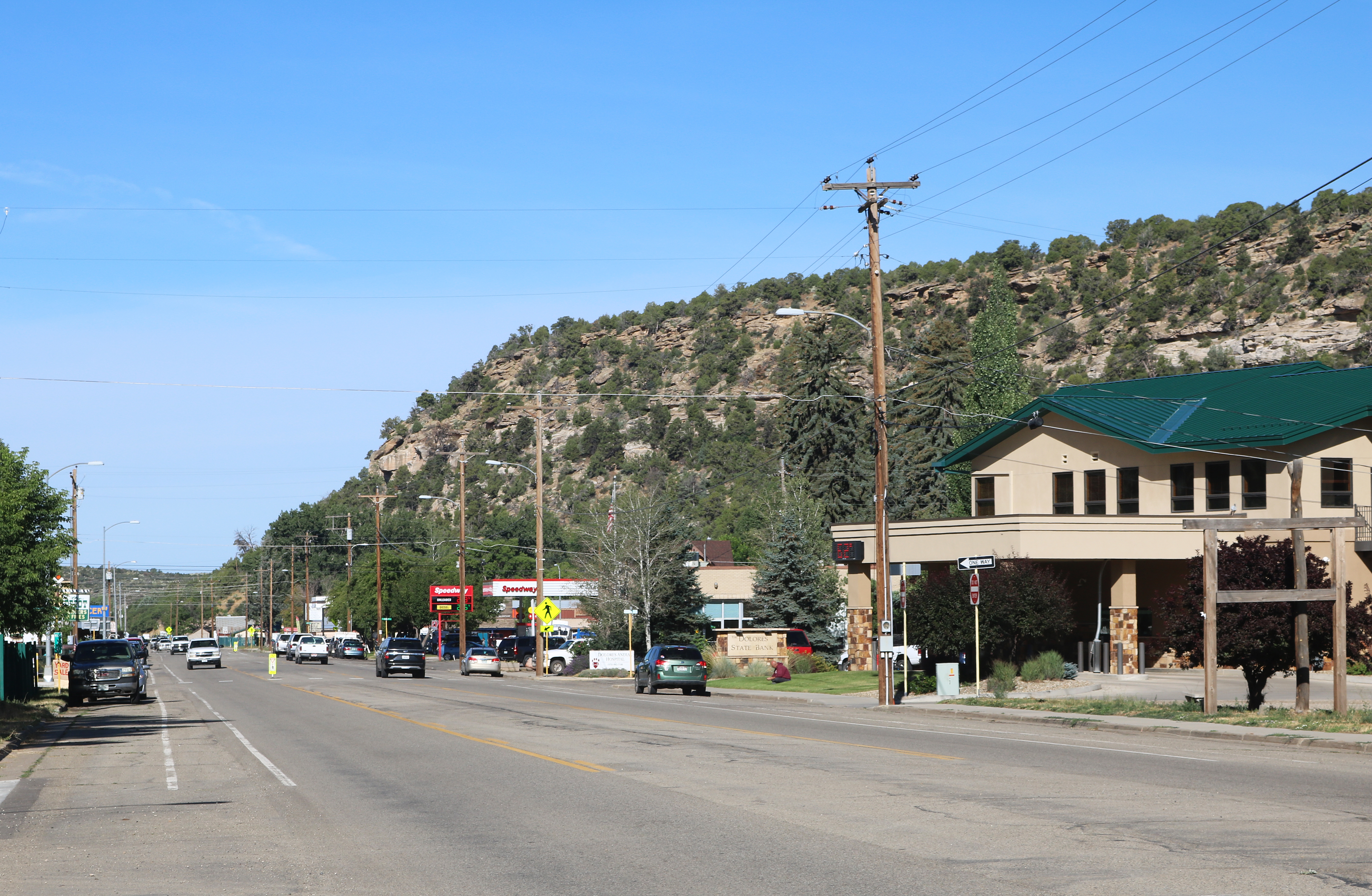 A view towards the southwest along Railroad Avenue, Dolores, Colorado's main street. The street is also Colorado State Highway 145.